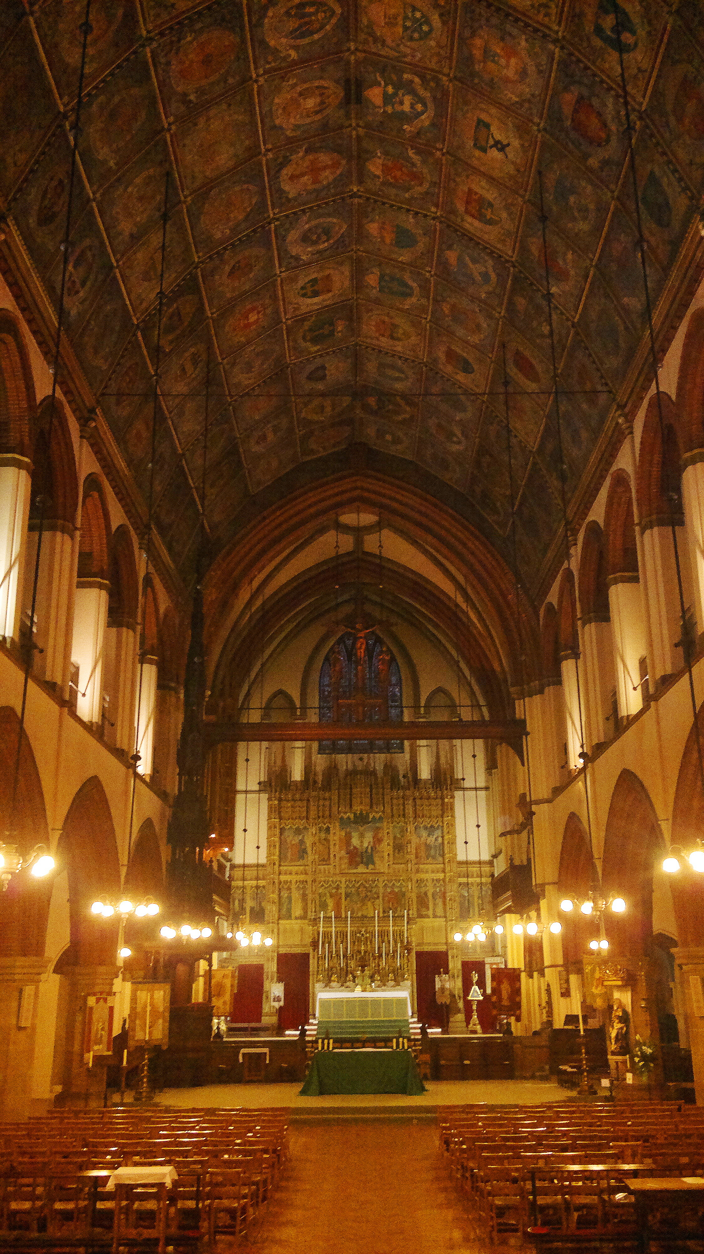 View from the West end showing the interior